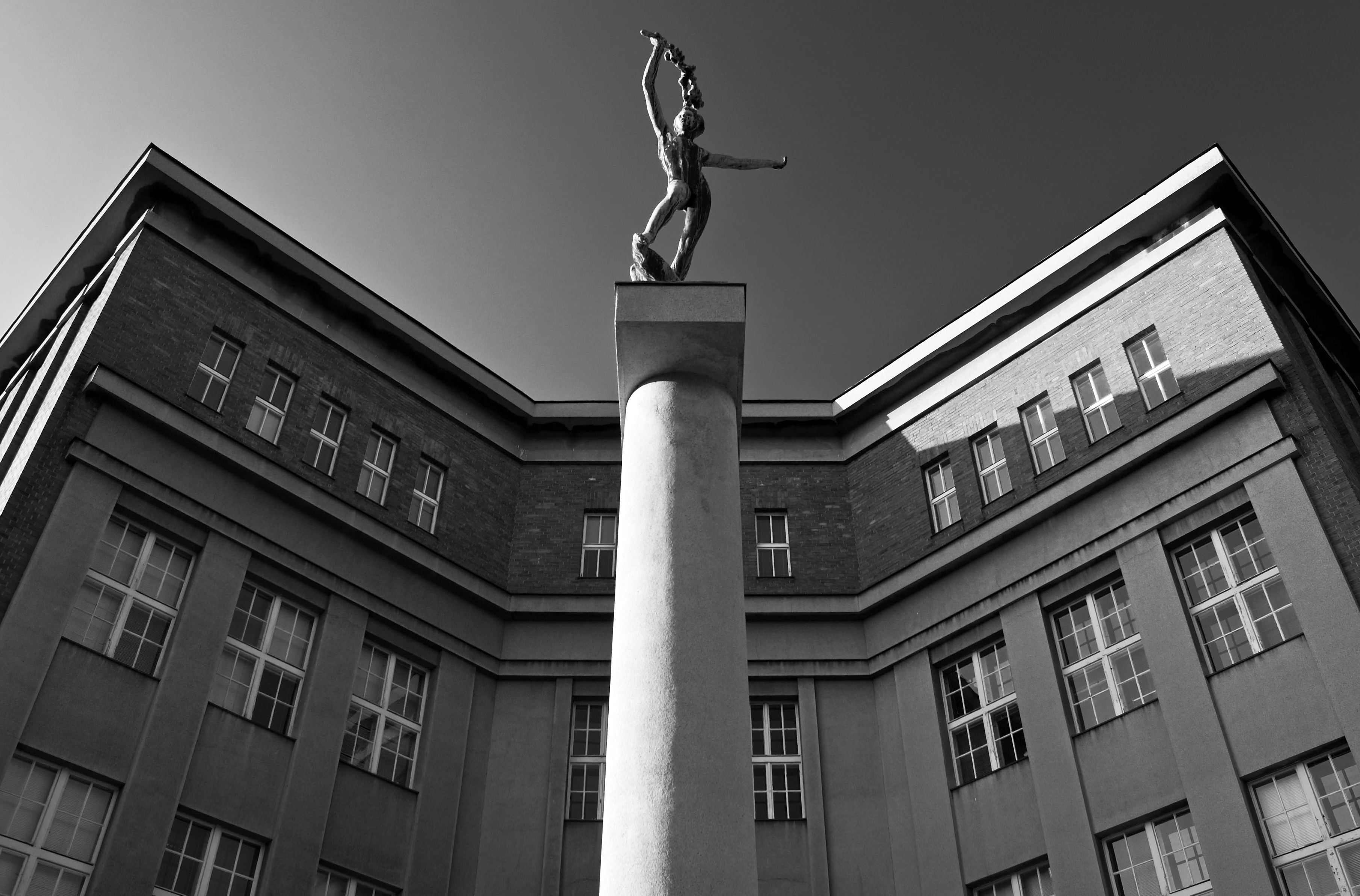 Building of Gymnázium Josefa Kajetána Tyla in Hradec Králové from Josef Gočár, in foreground statute Vítěz from Jan Štrusa